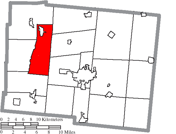 Map of the municipal and township boundaries of Logan County, Ohio, United States, as of the 2000 census, with the location of Washington Township highlighted. Township borders are shown only in unincorporated areas in order to differentiate incorporated and unincorporated areas more clearly.